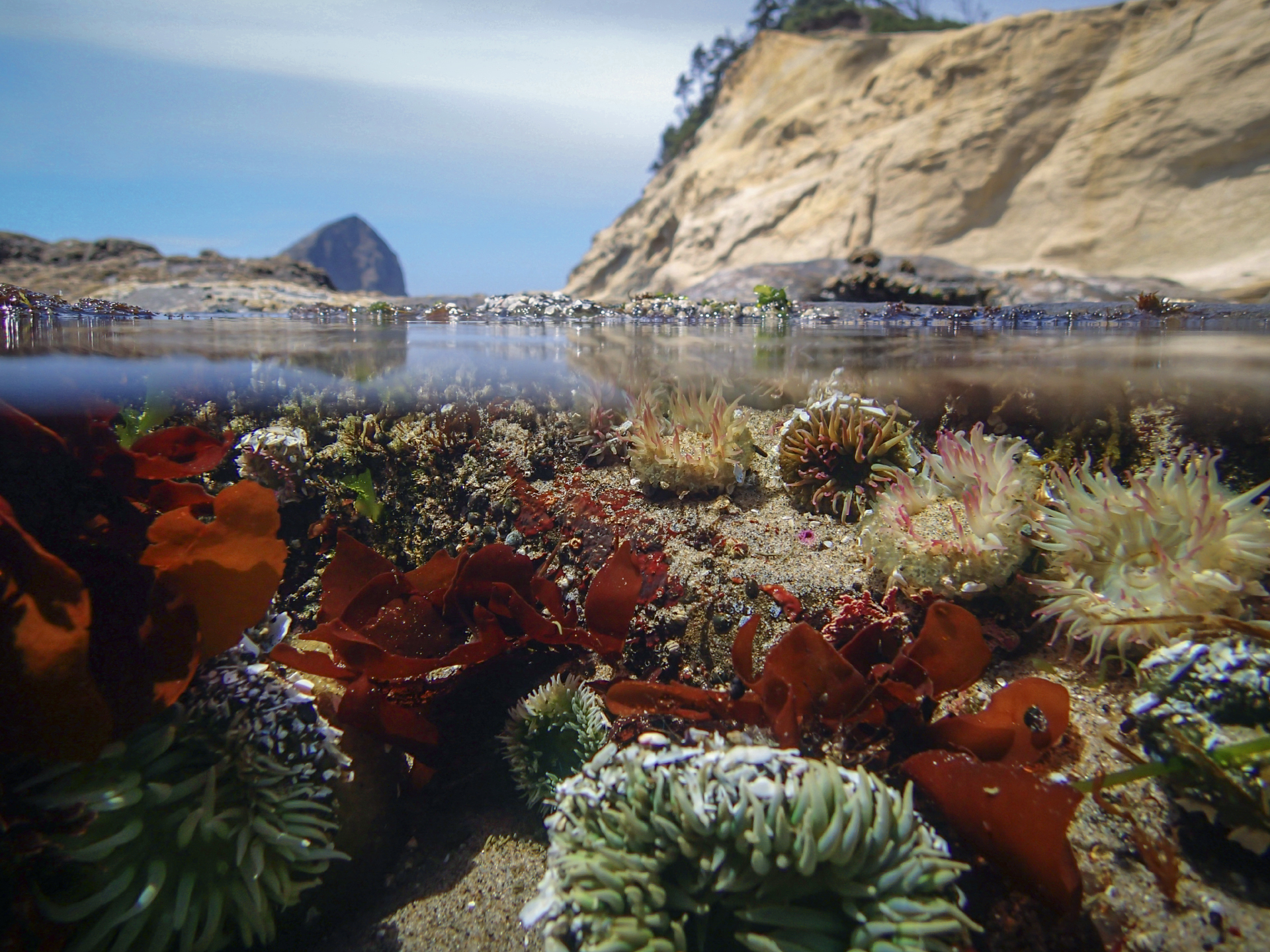 Anthopleura elegantissima y Anthopleura xanthogrammica, Woods, Oregón, Estados Unidos